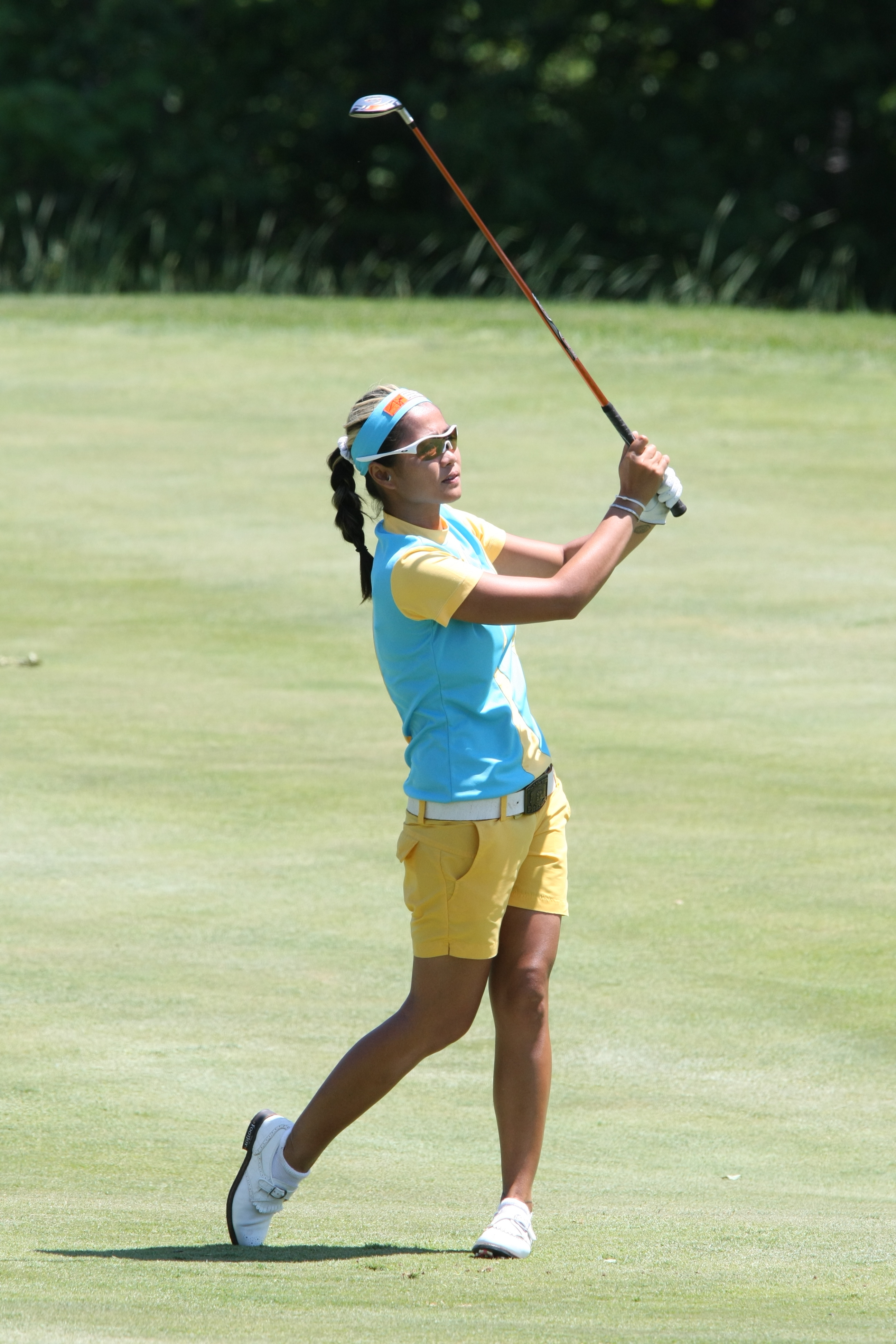 HAVRE DE GRACE, MD - JUNE 02: Jennifer Rosales (PHI) during pro-am before 2008 LPGA Championship held at Bulle Rock Golf Course, on June 2, 2008 in Havre de Grace, Maryland. (Photo by Keith Allison)